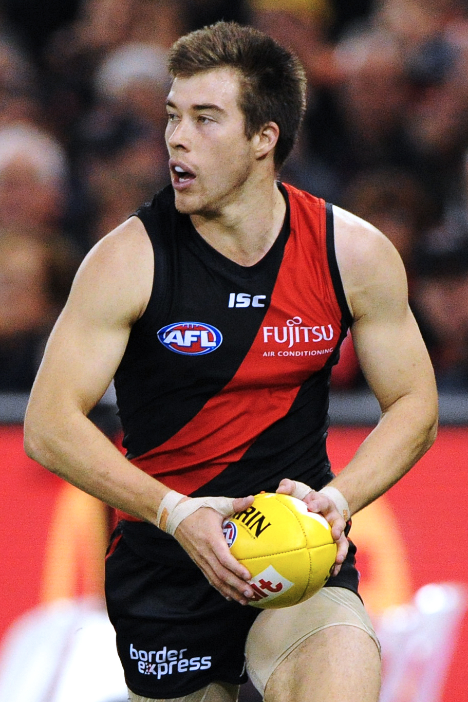 Zach Merrett of Essendon during the 2018 AFL round 6 match between Essendon and Melbourne at Etihad Stadium on Sunday, 29 April 2018 in Melbourne, Victoria.